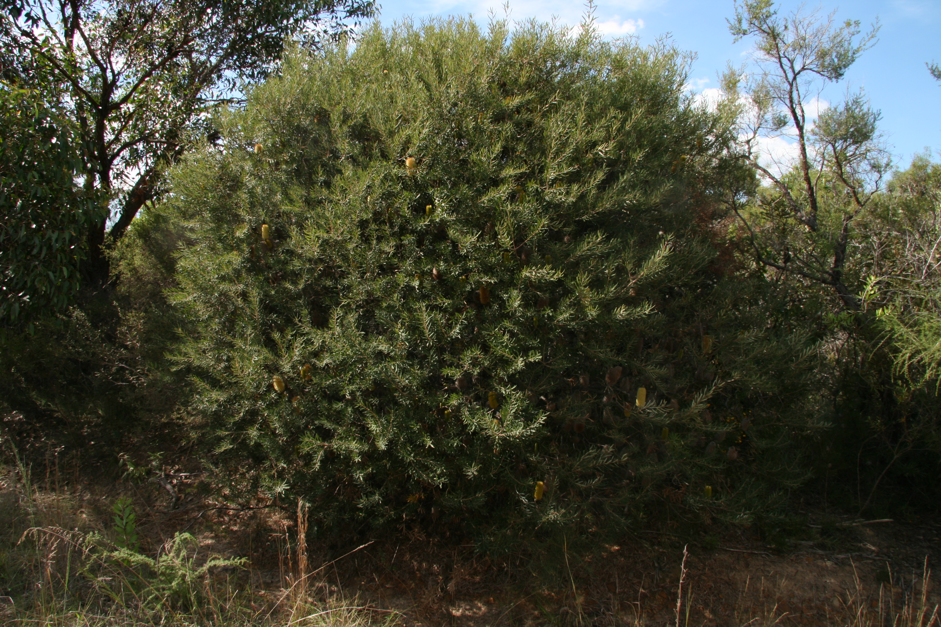 Habit shot of Banksia marginata shrub ~ 2.5 m high and wide (same as other similarly named files). Near Clarendon Ave, Revesby